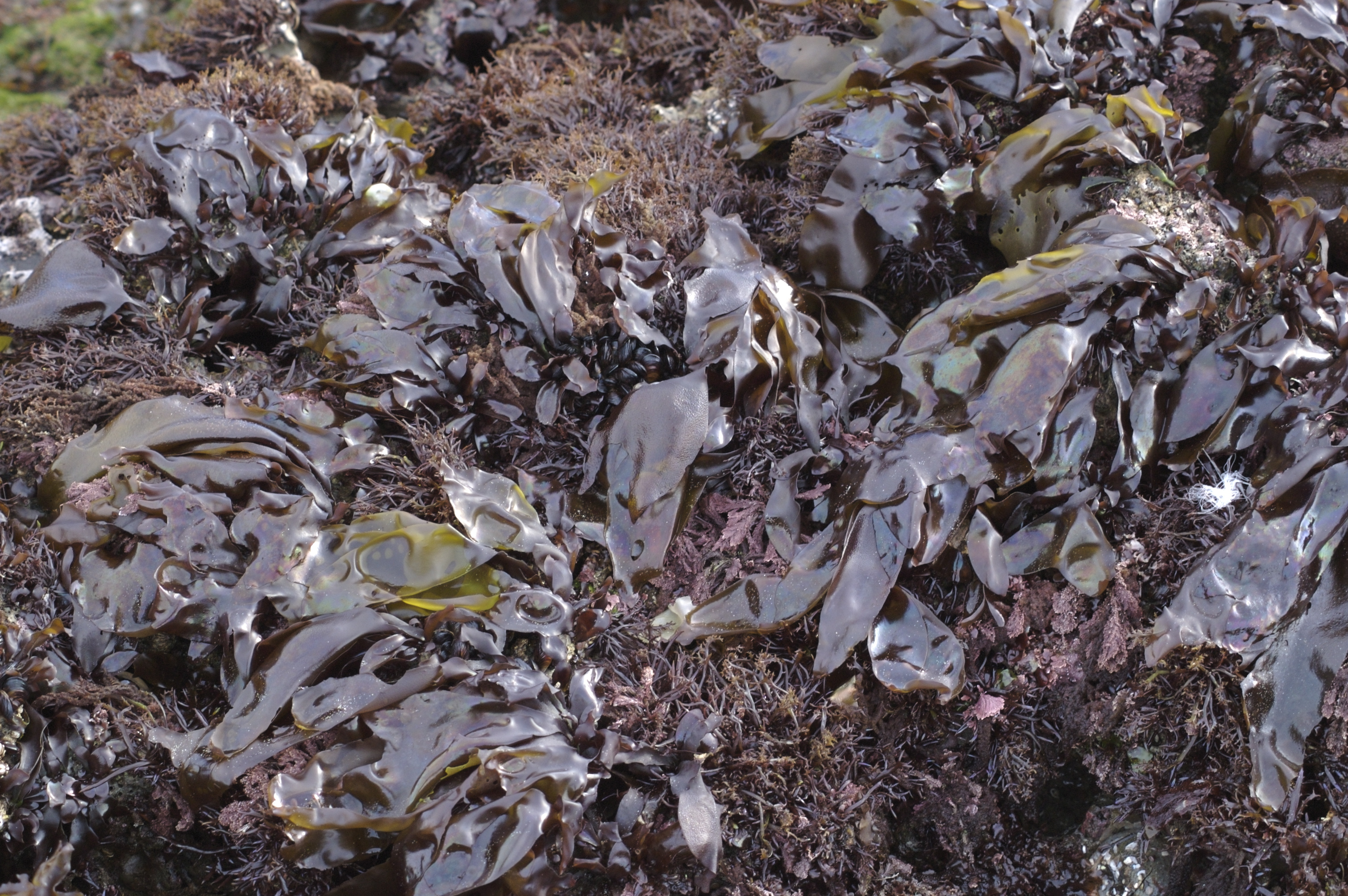 Iridaea cordata.